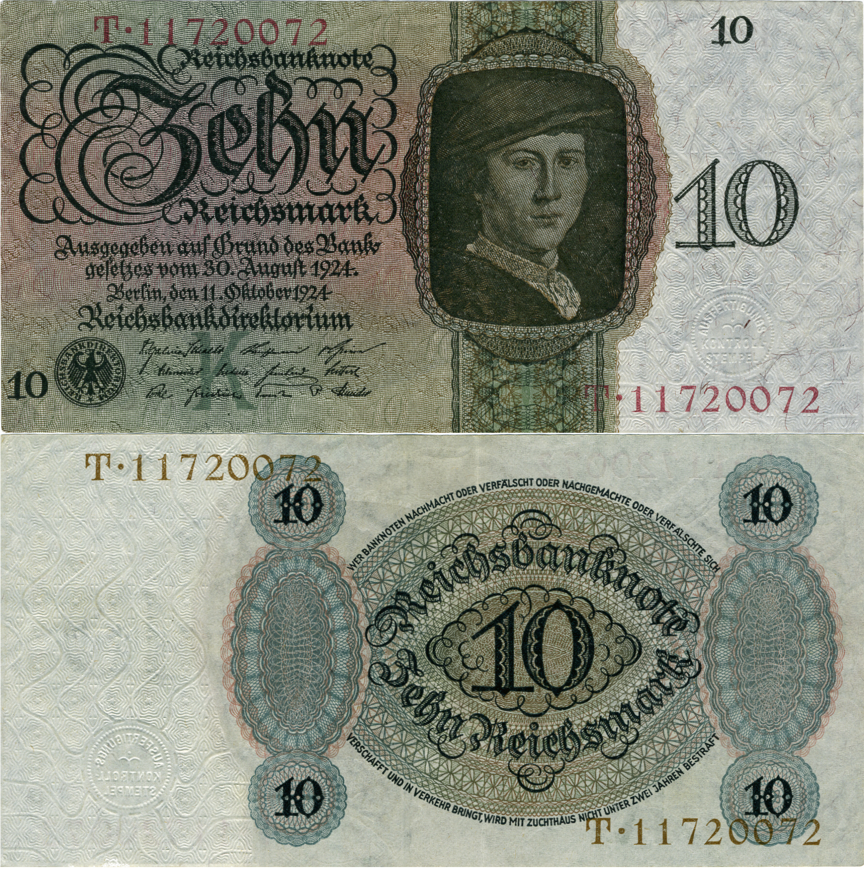 10 Reichsmark dated 1924-10-11